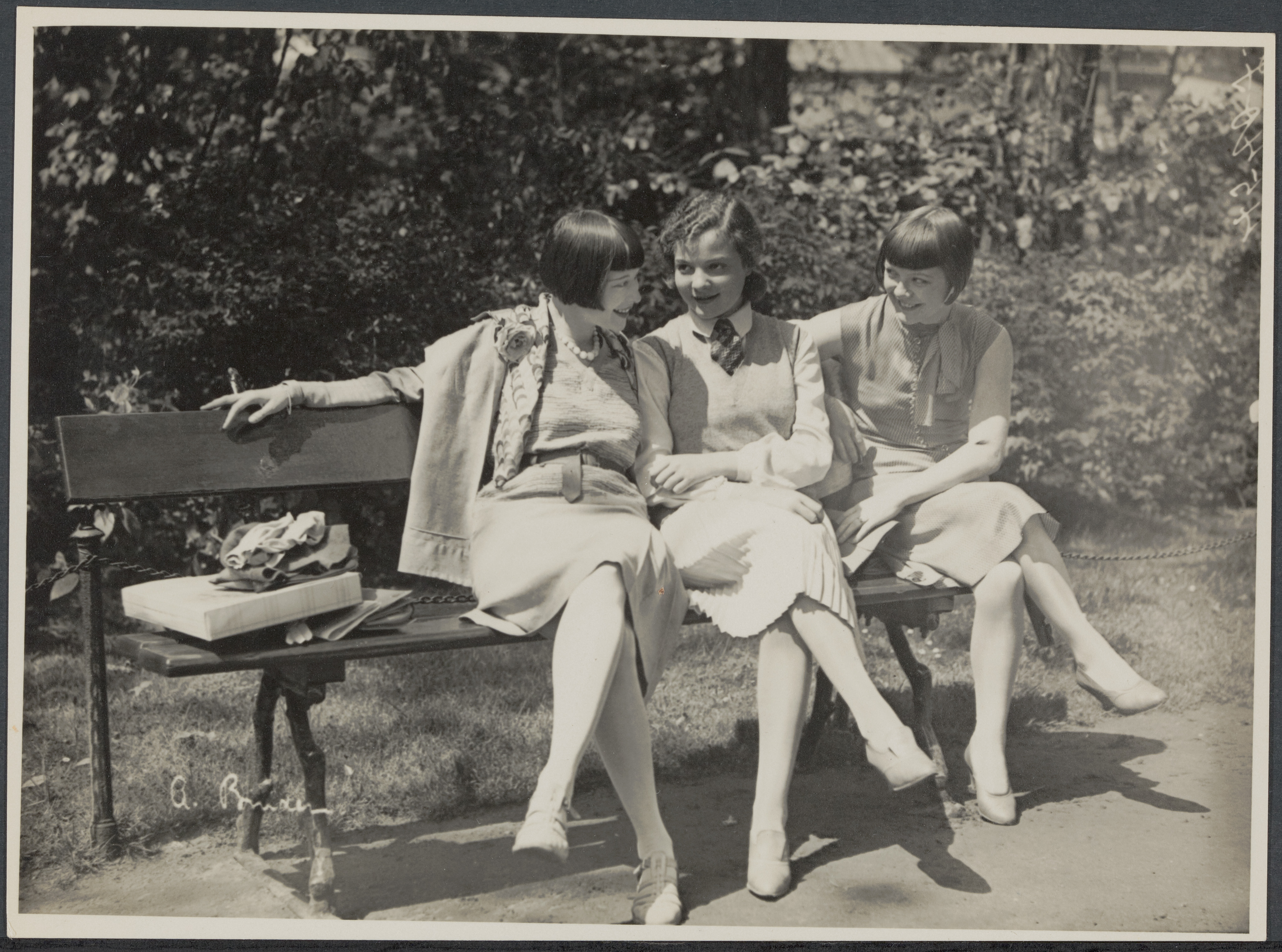 Truus van Aalten (Dutch film actress, 1910-1999) with two girls seated on a bench in a garden. 13 x 18 cm.